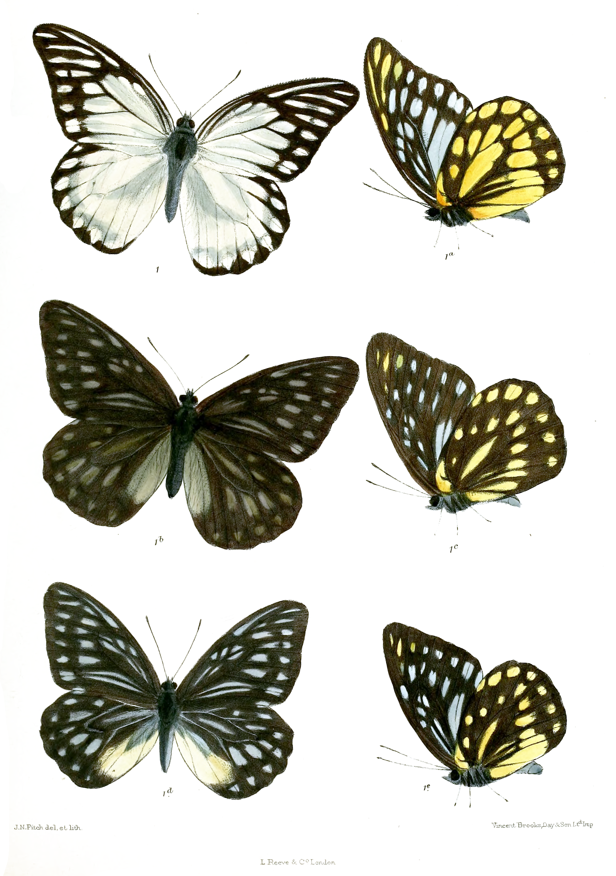 Prioneris thestylis (wet season form)